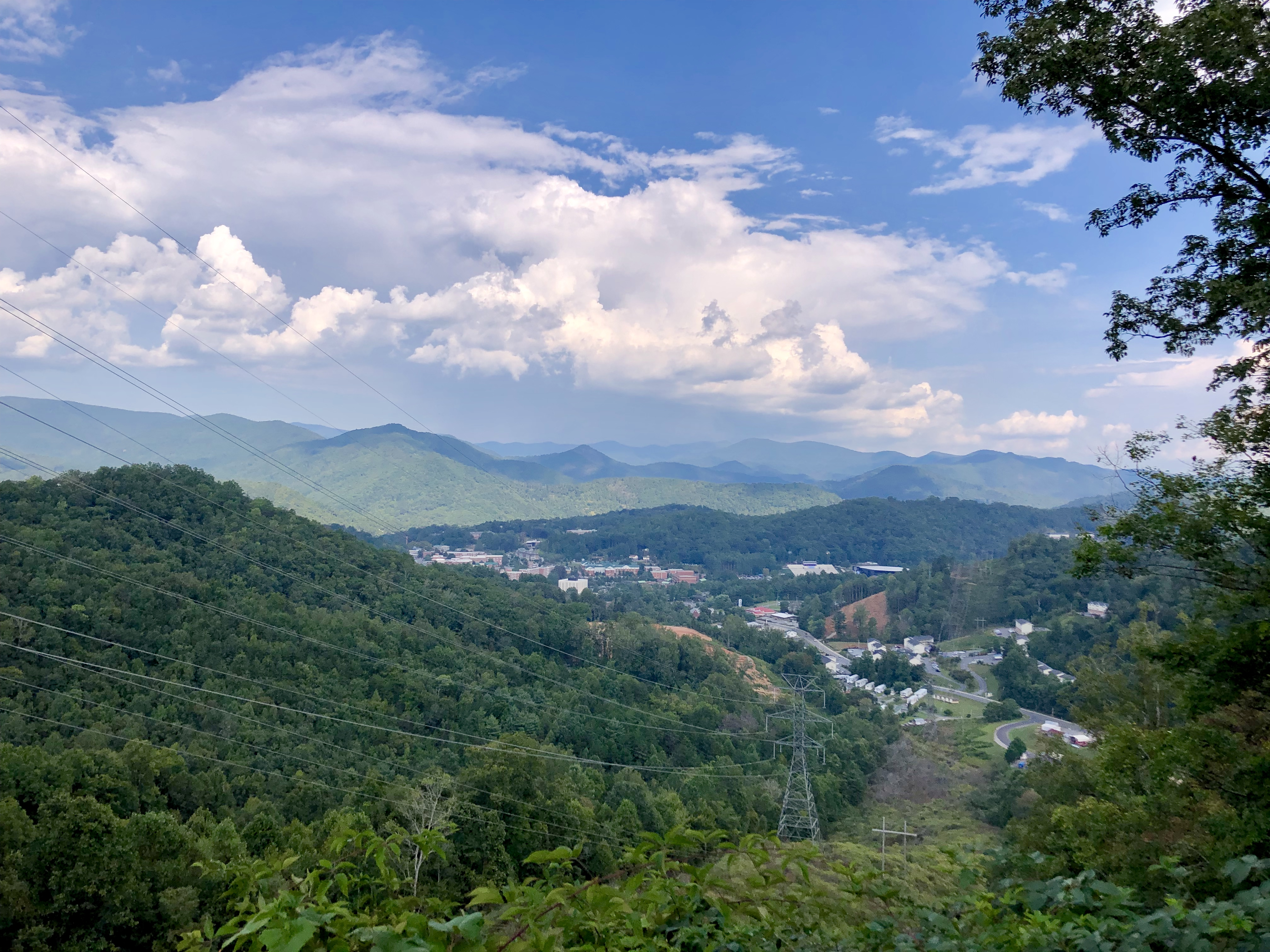 This photo was taken of Cullowhee, North Carolina from Airport Road, looking down upon the valley and showing buildings on the campus of Western Carolina University and in the vicinity of Little Savannah Road and the community Post Office.